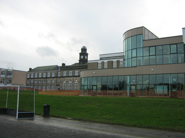 Harrogate Grammar School, rear view